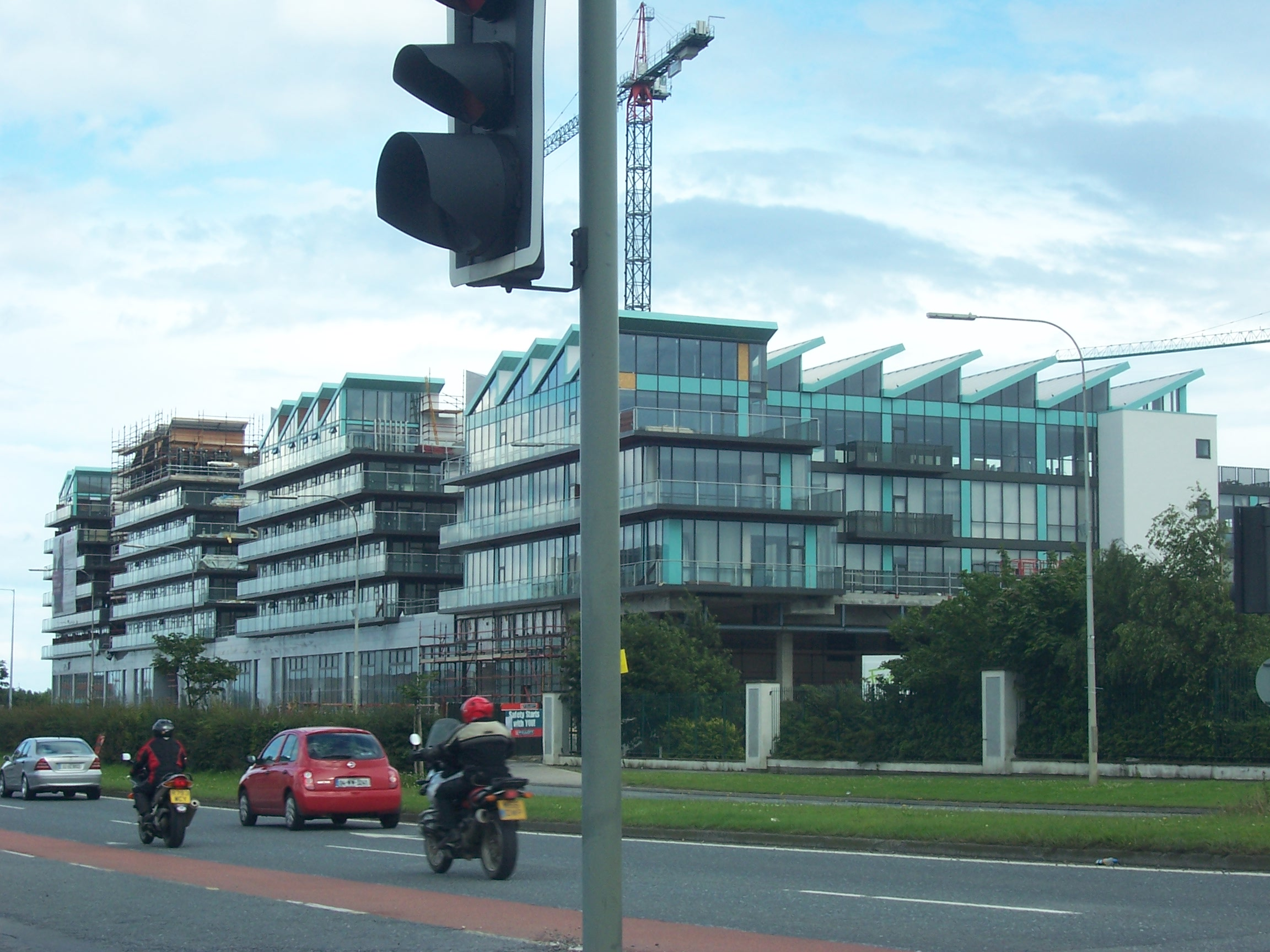 Arena Buildings, Tallaght, Dublin, IrelandMaldron Hotel (formerly Tower Hotel) is on the far left. New Seskin Court apartments are shown in the middle. Woodie's DIY store is shown on the bottom right.